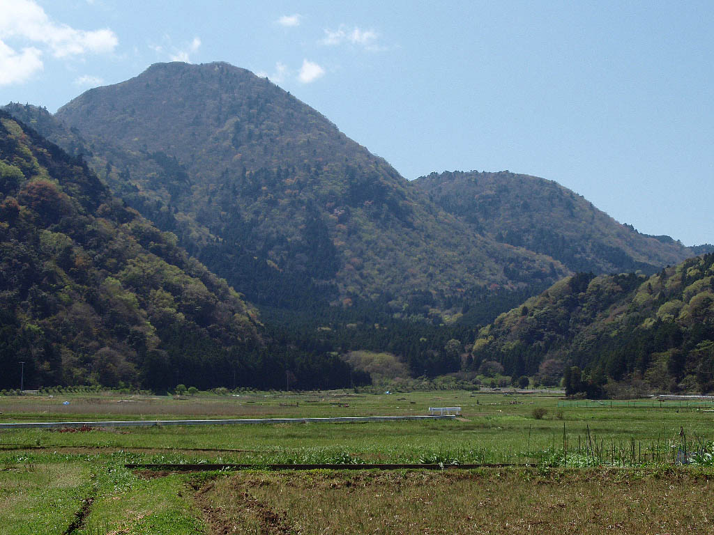 Mount Yahazu (Yahazu-yama) and Mount Anano (Anano-yama) — a lava dome of the Izu-tobu Volcano Group, located in Ito, Shizuoka Prefecture, Japan. Within Fuji-Hakone-Izu National Park.